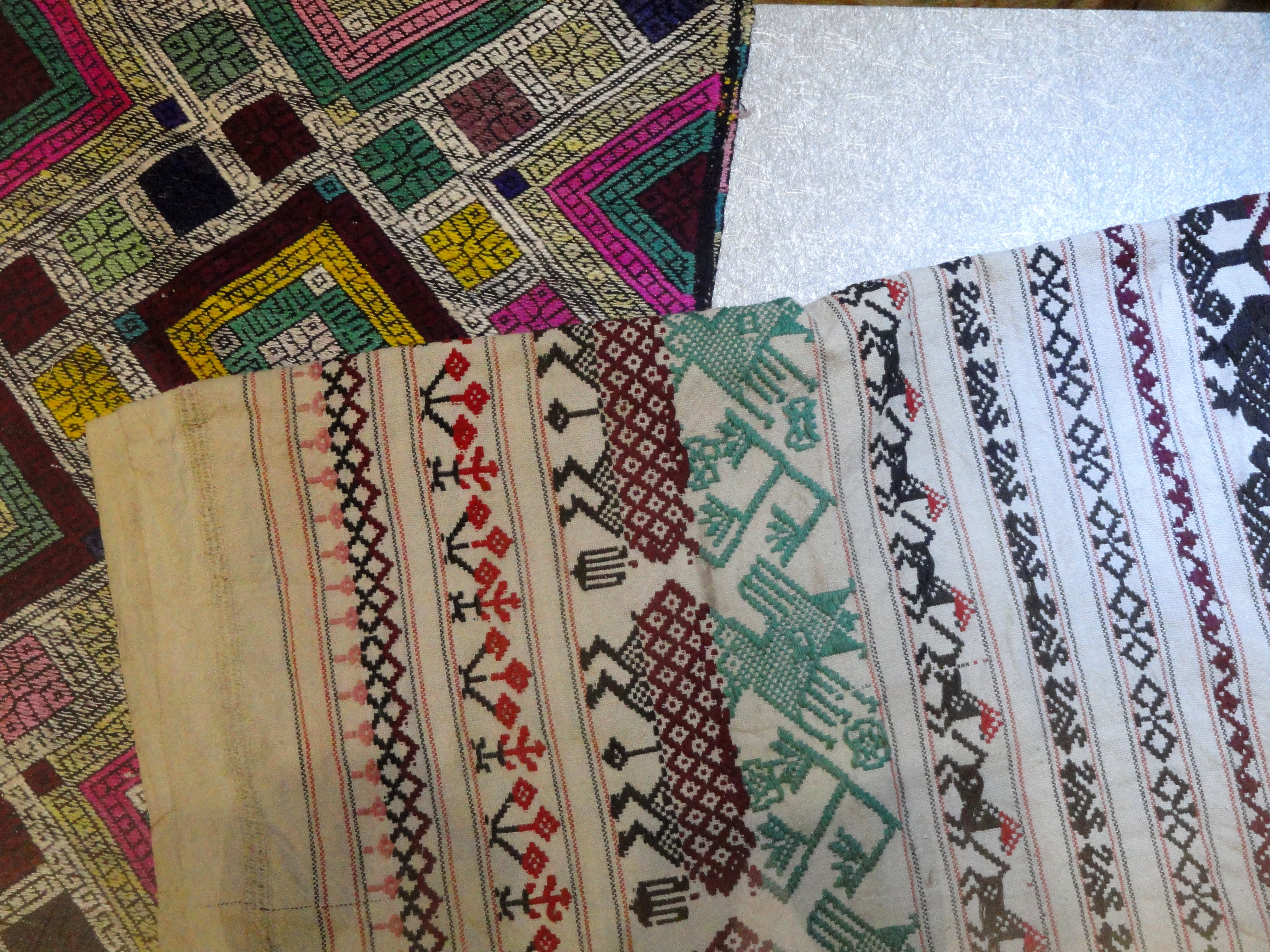 Dai brocade. Clothing in the Yunnan Provincial Museum, Kunming, Yunnan, China.